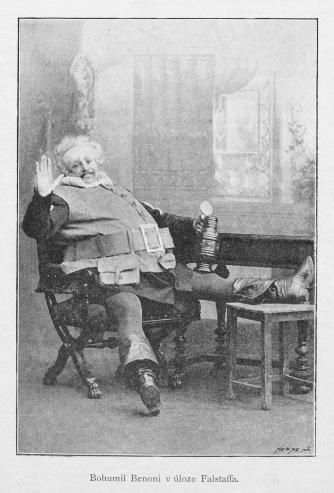 Portrait of Bohumil Benoni (1862-1942), Czech opera singer, in a role of Falstaff.